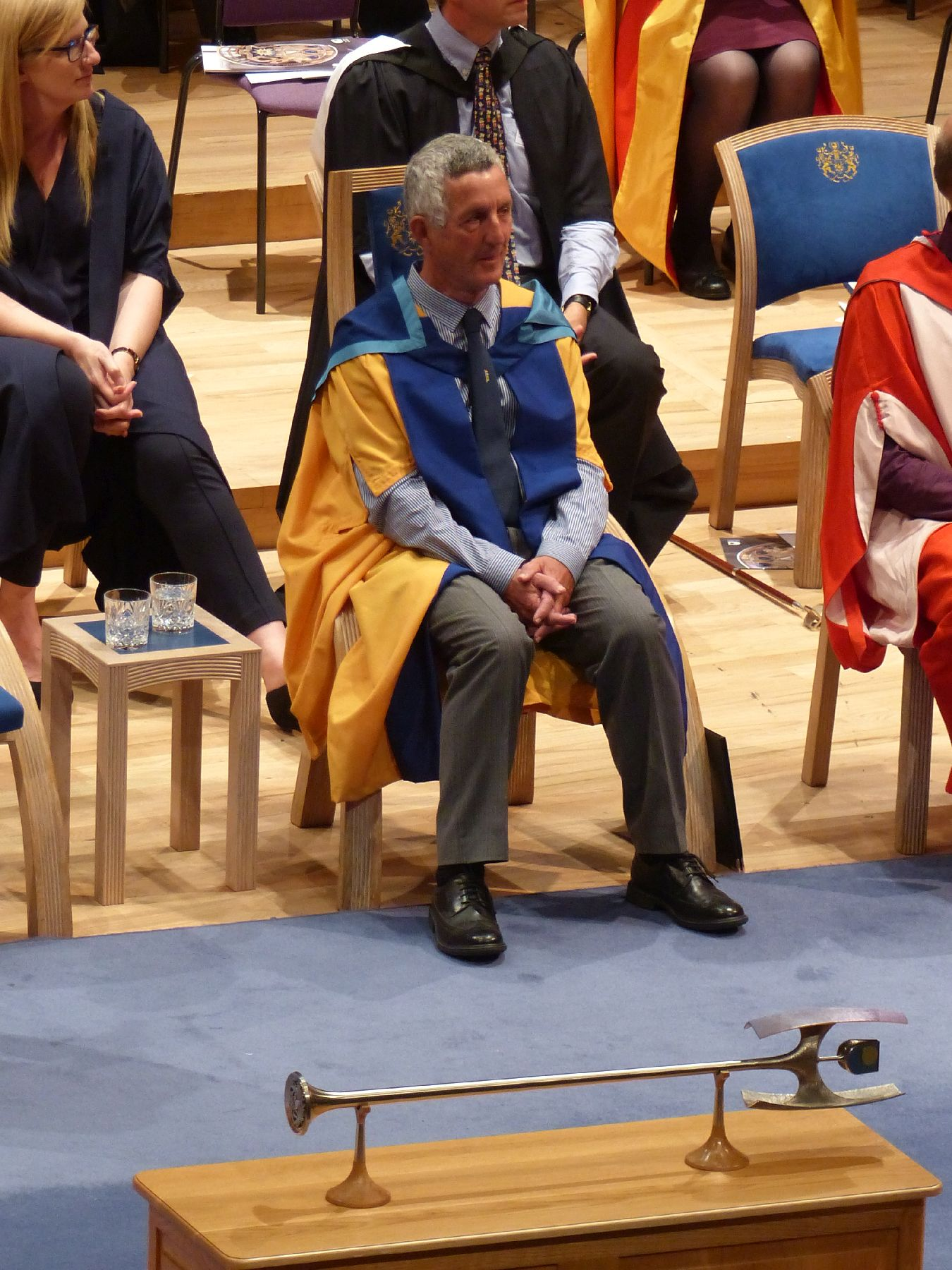 Dr Ian Witten, Emeritus Professor of Computer Science at the University of Waikato, having received the Honorary Degree of Doctor of the Open University at a graduation ceremony in the Bridgewater Hall, Manchester, on Friday 29 September 2017.